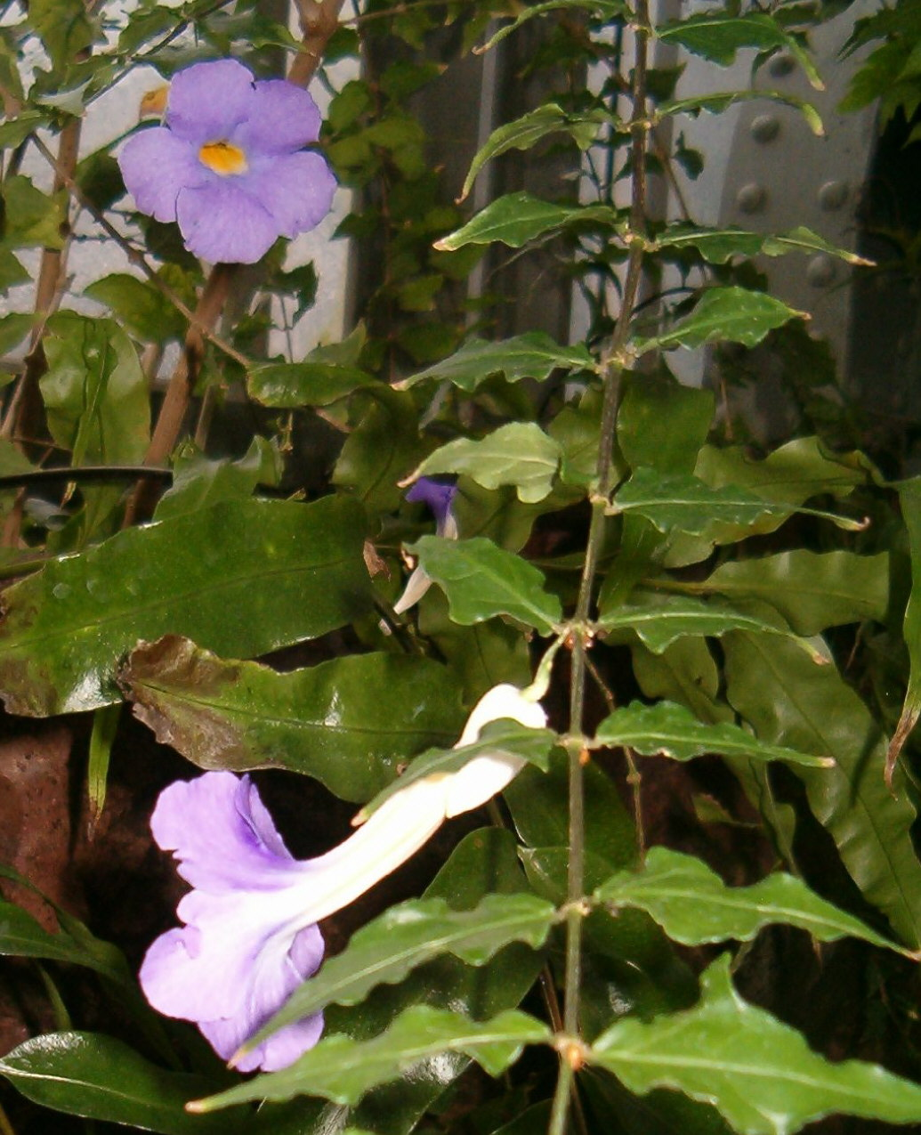 Location: Botanical Gardens Berlin Dahlem